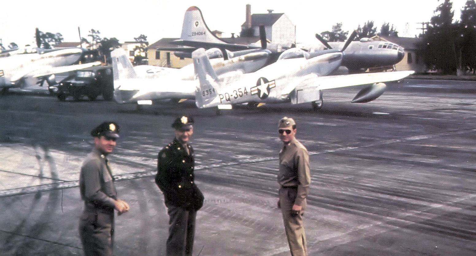 27th Fighter-Escort Wing F-82 Twin Mustangs at Kearney AFB, Nebraska, 1948. F-82E 46-354 identifiable, along with Bell-Atlanta B-29-60-BA Superfortress 44-84064.